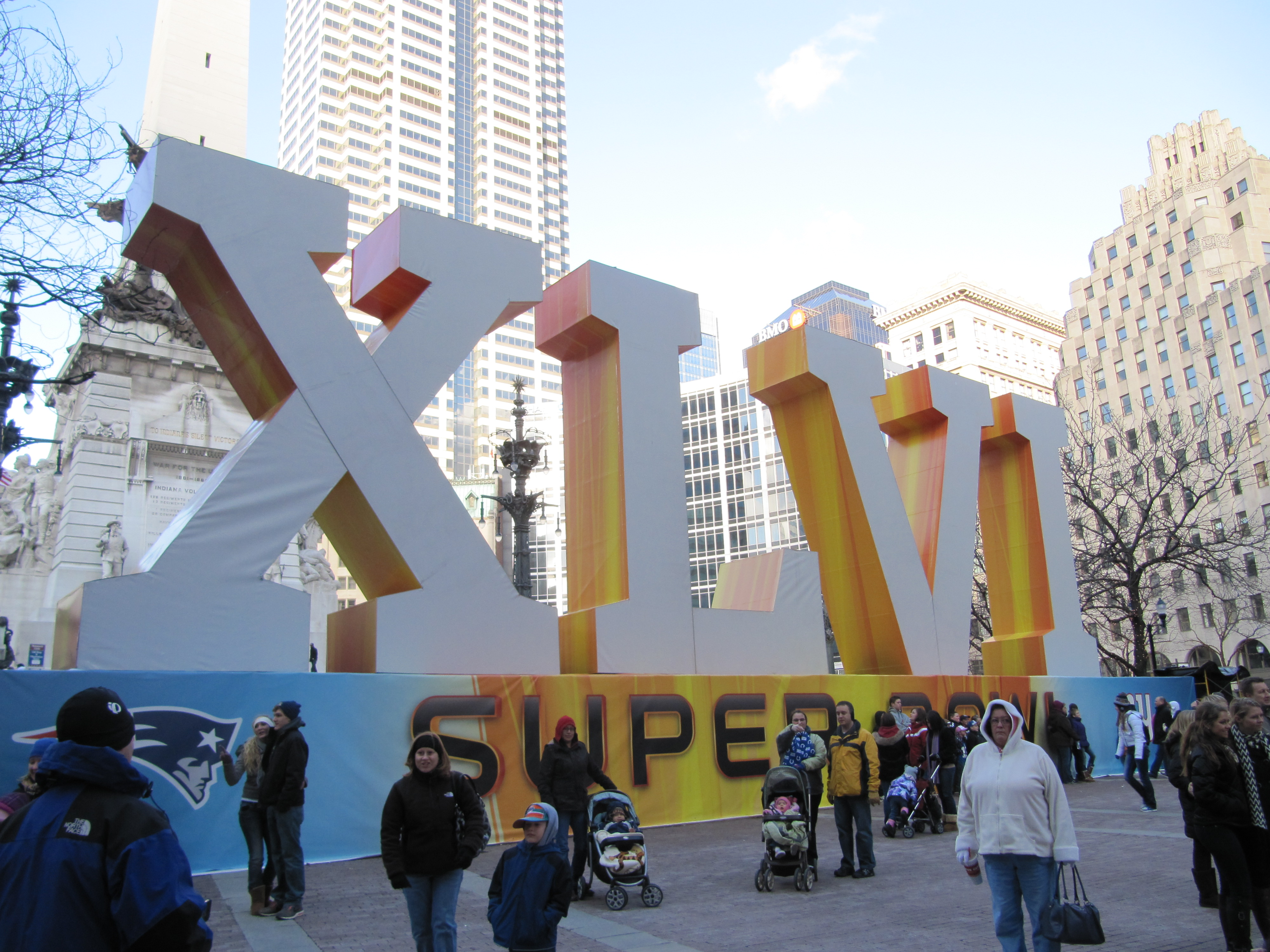 Indianapolis hosted the 2012 Super Bowl and did a fantastic job.